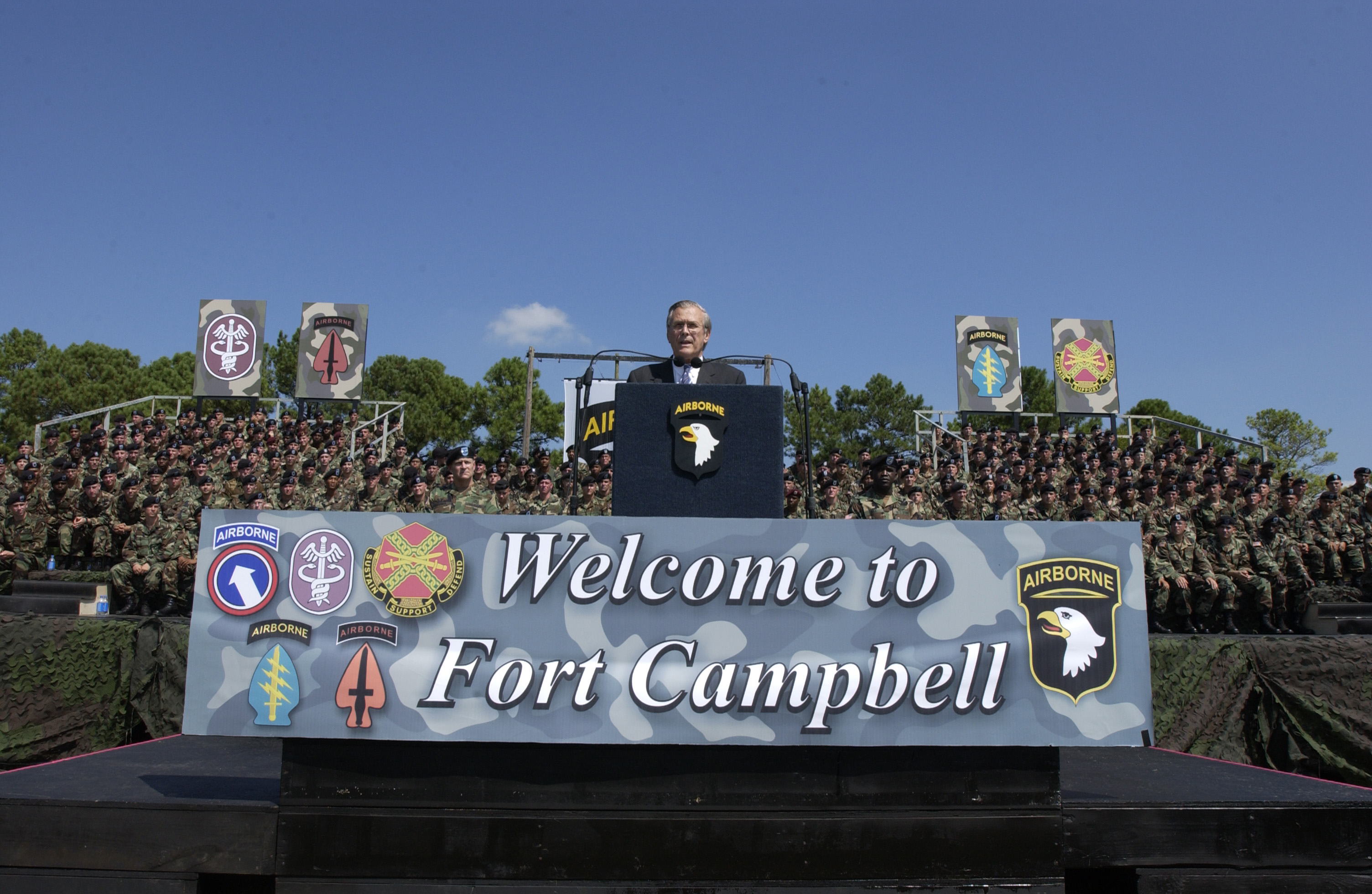 Secretary of Defense Donald H. Rumsfeld talks to the troops of the 101st Airborne Division at Fort Campbell, Ky., on Sept. 14, 2004. Rumsfeld delivered his remarks and took questions from an audience of approximately 13,000 soldiers, family members and people from the local community during his visit.